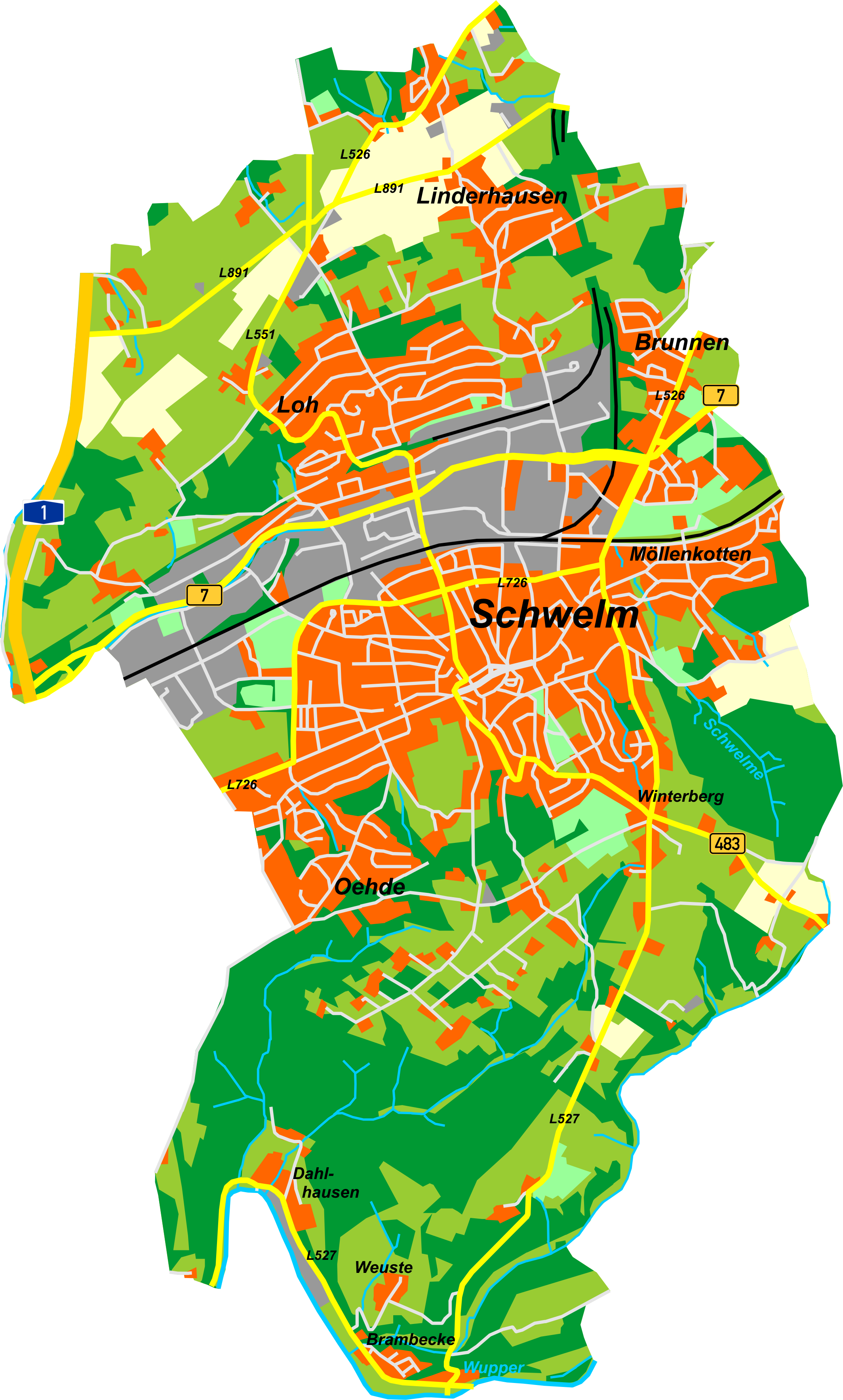 Map of Schwelm, Ennepe-Ruhr-Kreis, Northrhine-Westfalia, Germany